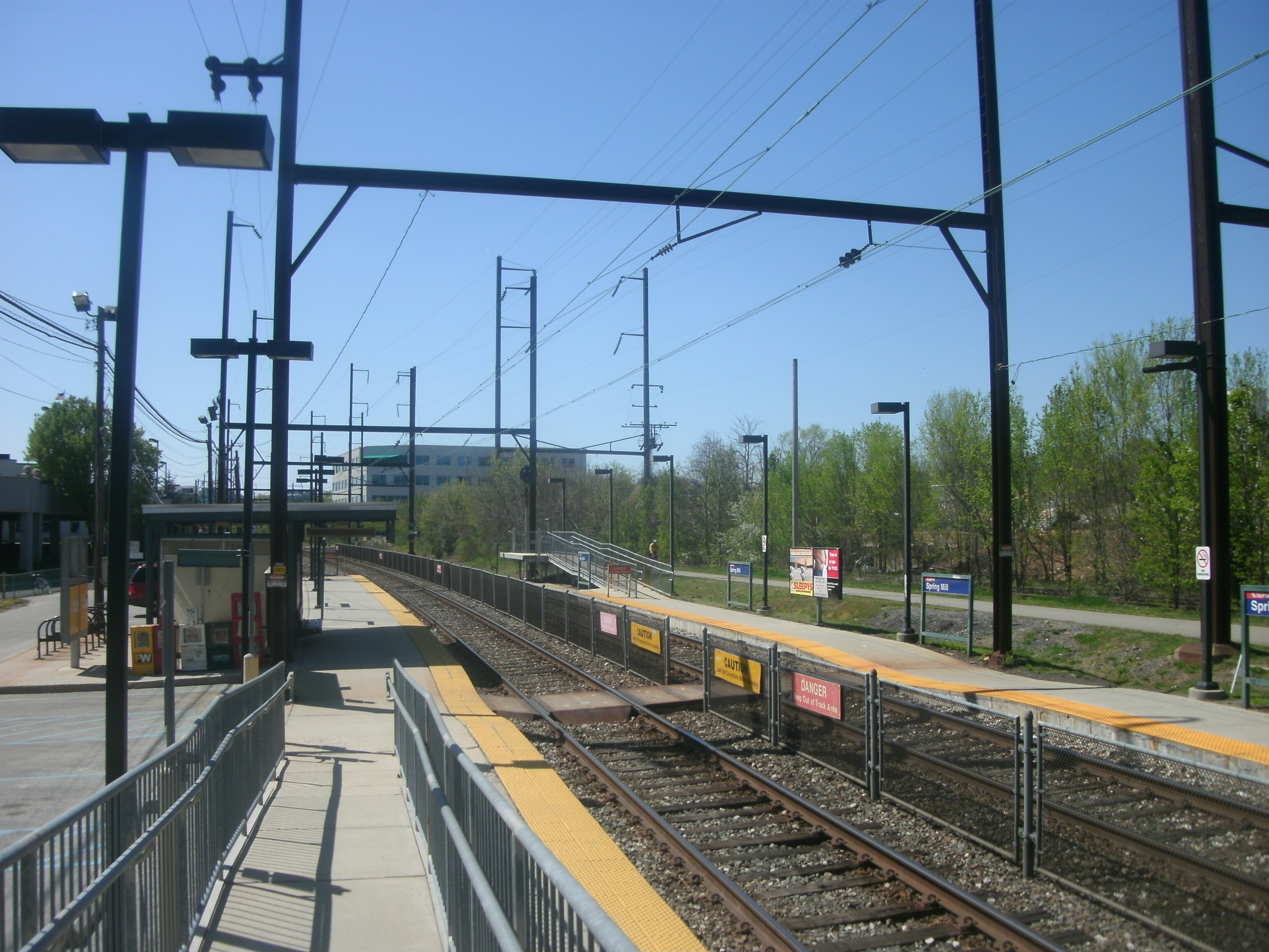 Spring Mill station on SEPTA's Manayunk/Norristown Line as seen from the mini-high level platform.